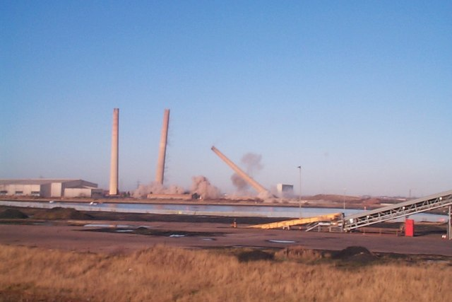 Going, going, gone. The demise of the Power Station chimneys. Photo taken from across the river